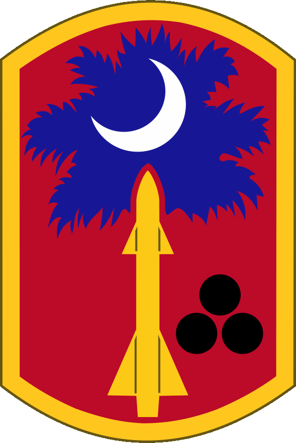 The U.S. Army's 678th Air Defense Artillery Brigade Shoulder Sleeve Insignia